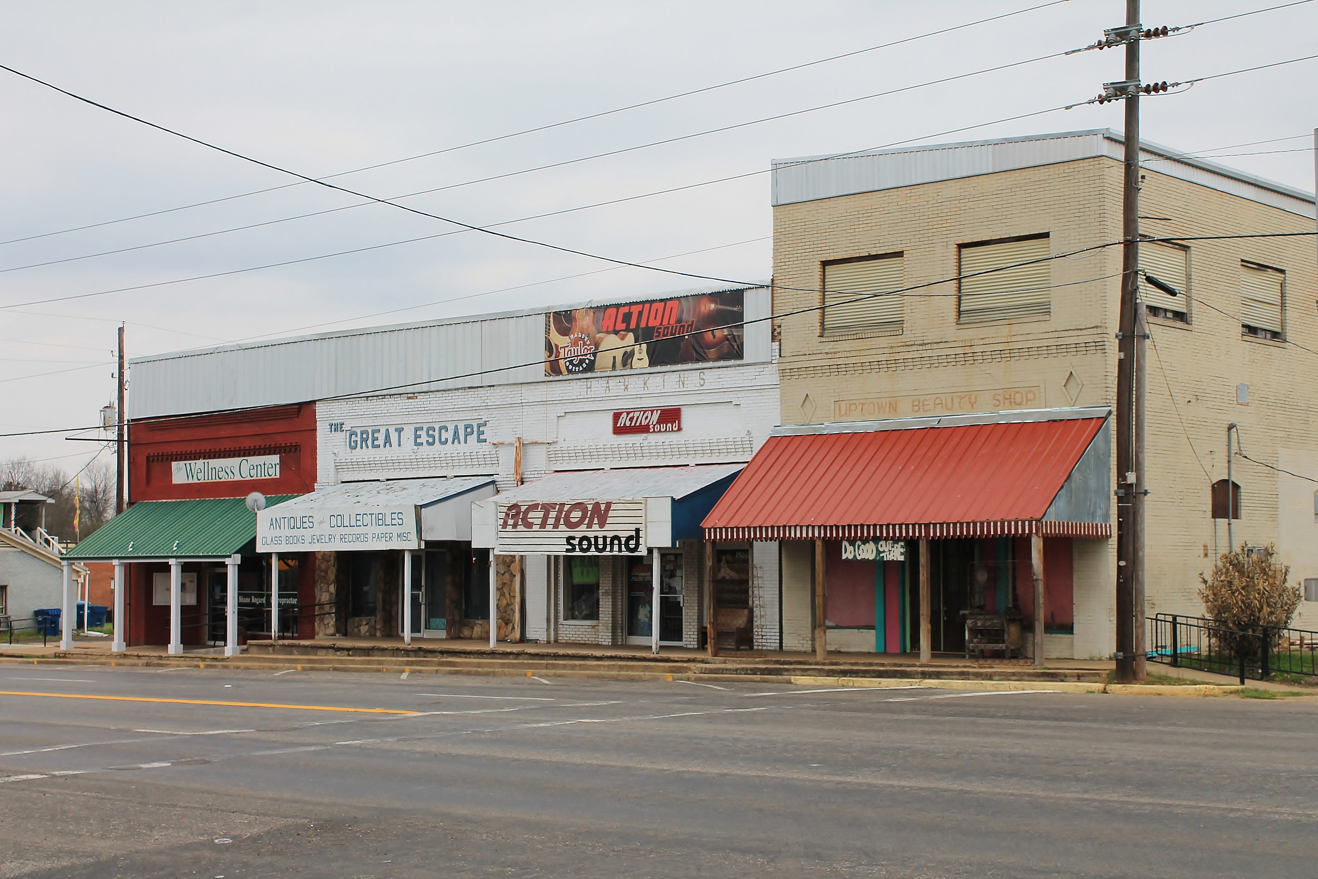 The town of Hawkins, Texas